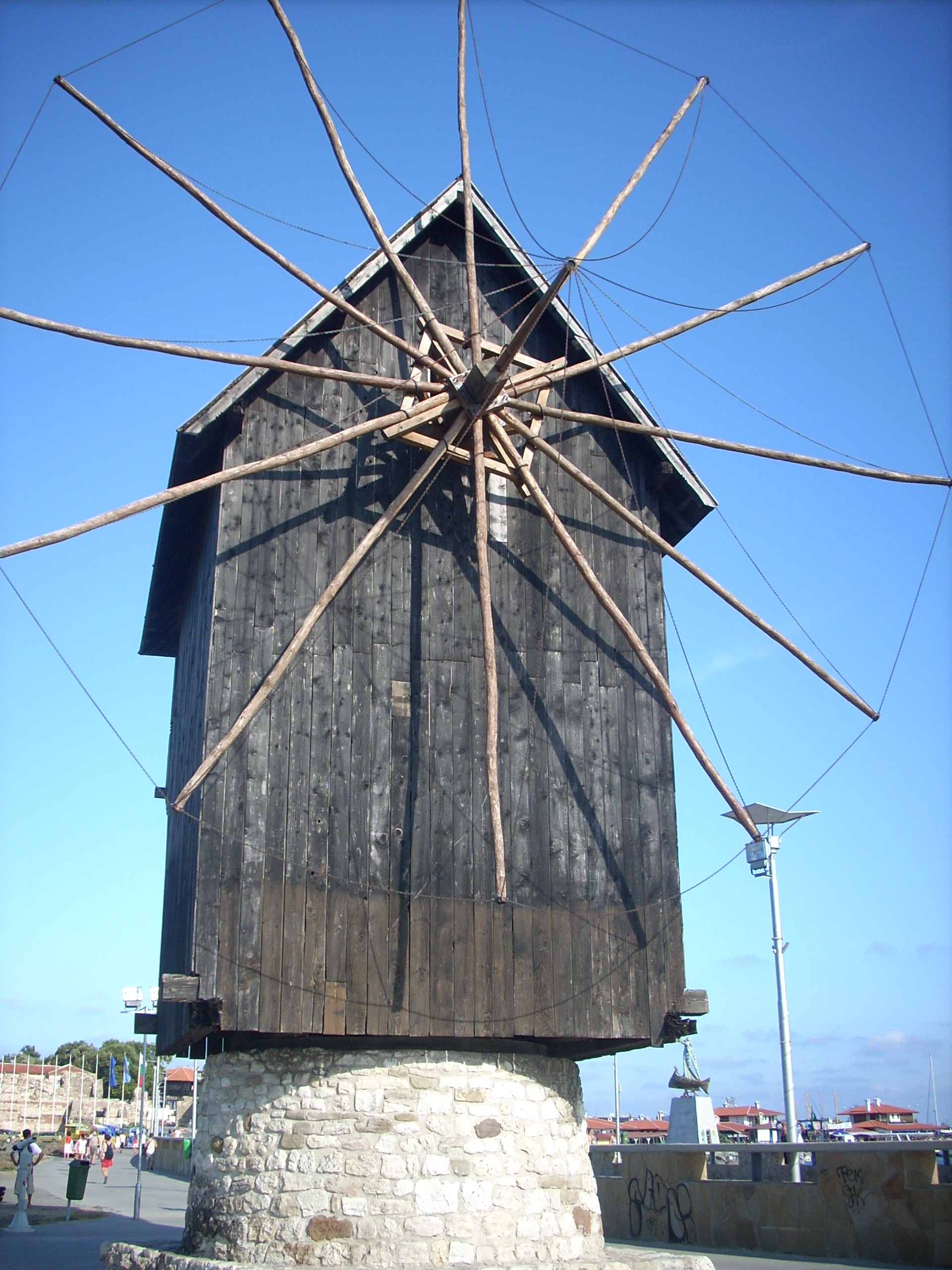 The windmill at the entrance of Nesebar, Bulgaria